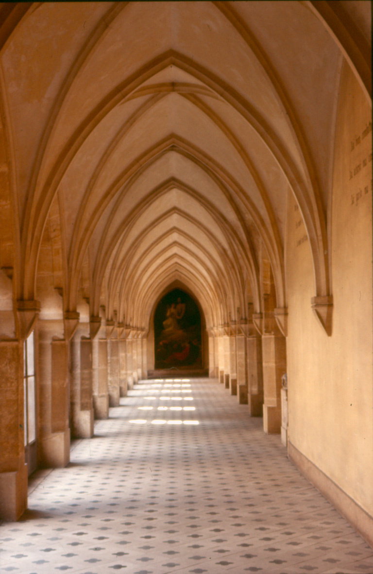 Picture of the cloister of the Carmel of Dijon, France